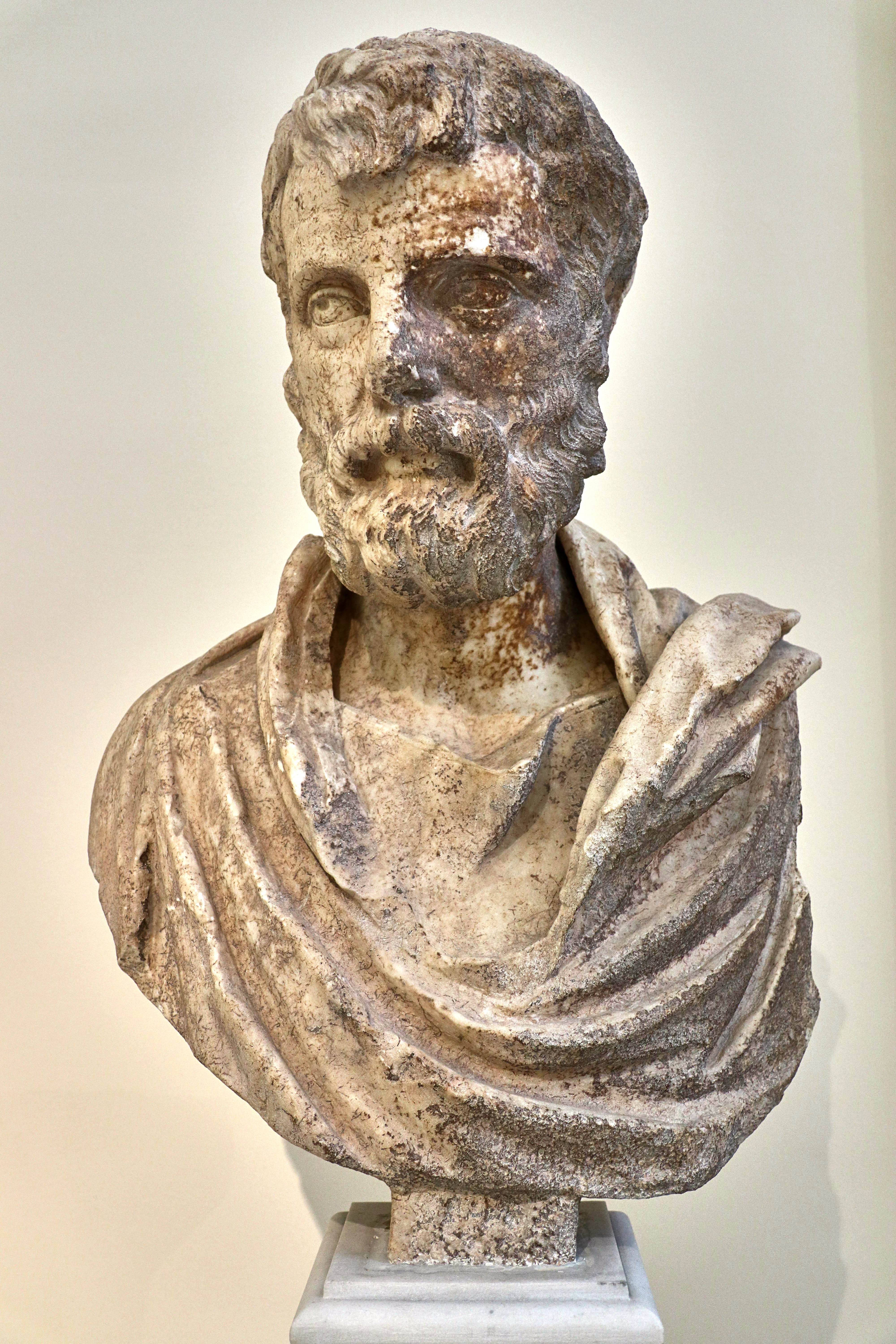 Portrait bust of Herodes Atticus. Pentelic marble. Found in Kiphisia, Attica. The wealthy Athenian sophist was the benefactor of Athens and other cities, where he erected many public buildings. He himself owned luxury villas in many parts of Greece. Middle of the 2nd century A.D. Accession number: 4810. National Archaeological Museum of Athens. Athens, Greece. Text: Museum inscription.